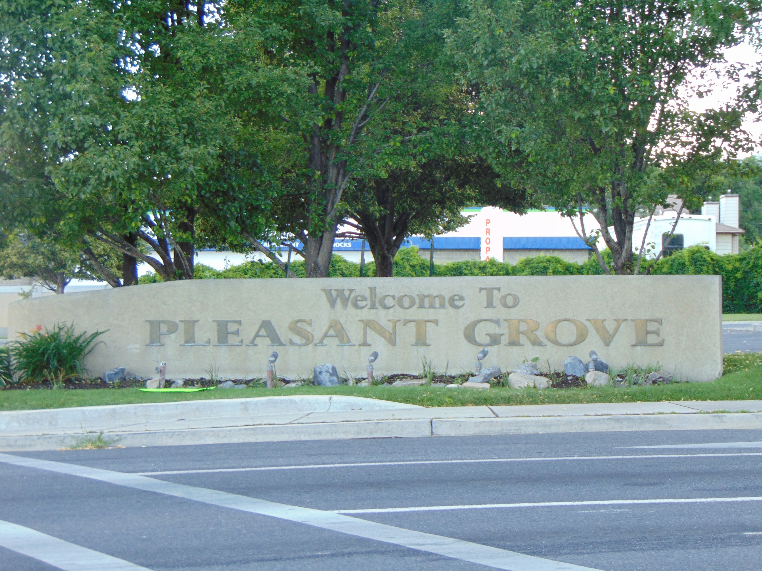 The Pleasant Grove Welcome sign on the northeast corner of State Street (U.S. Route 89) and East 1000 South in Pleaant Grove in Utah, June 2016. East 1000 South continues west as East 700 North (Utah State Route 129) in Lindon.